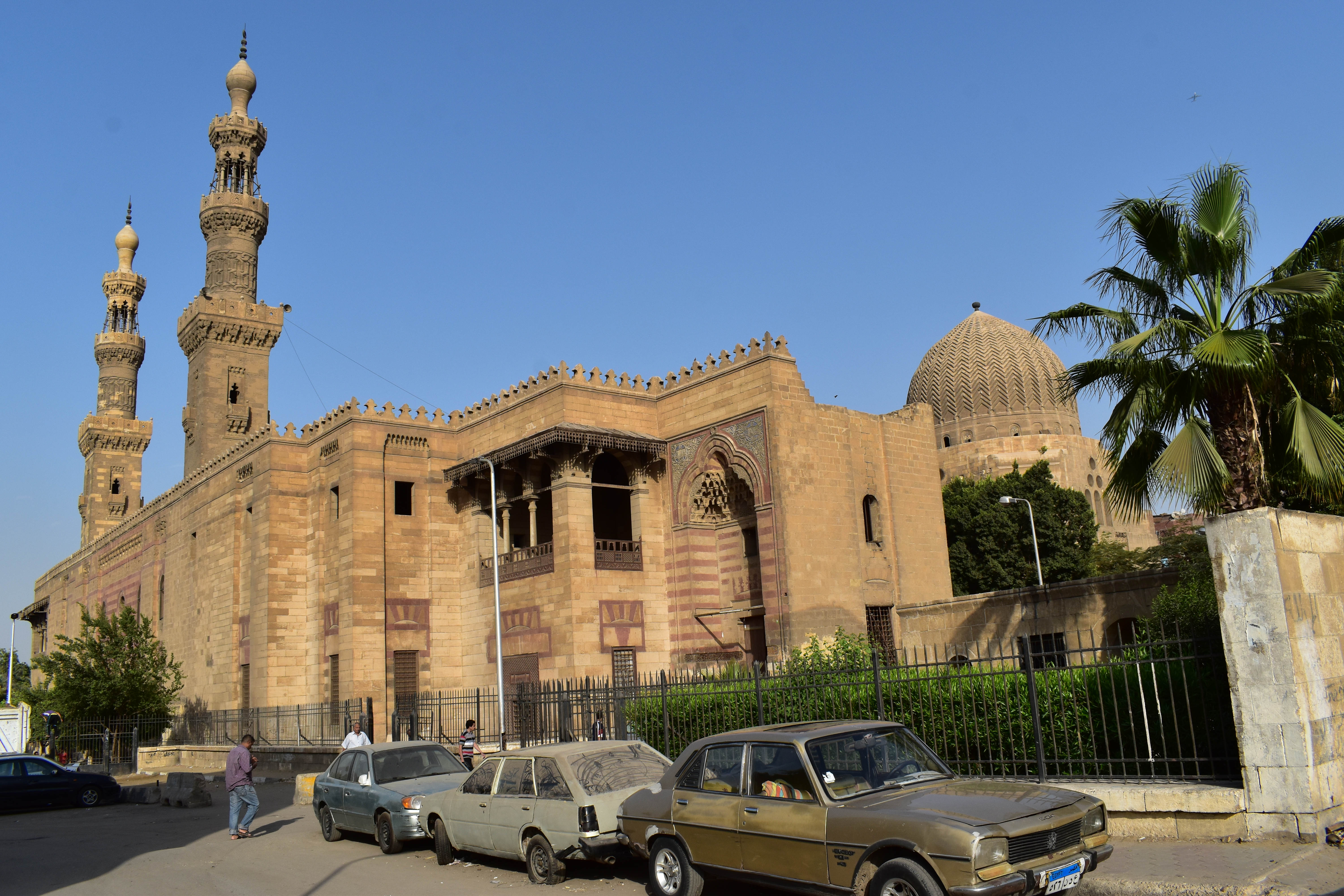 Khanqah of Farag ibn Barquq, photo by Hatem Moushir